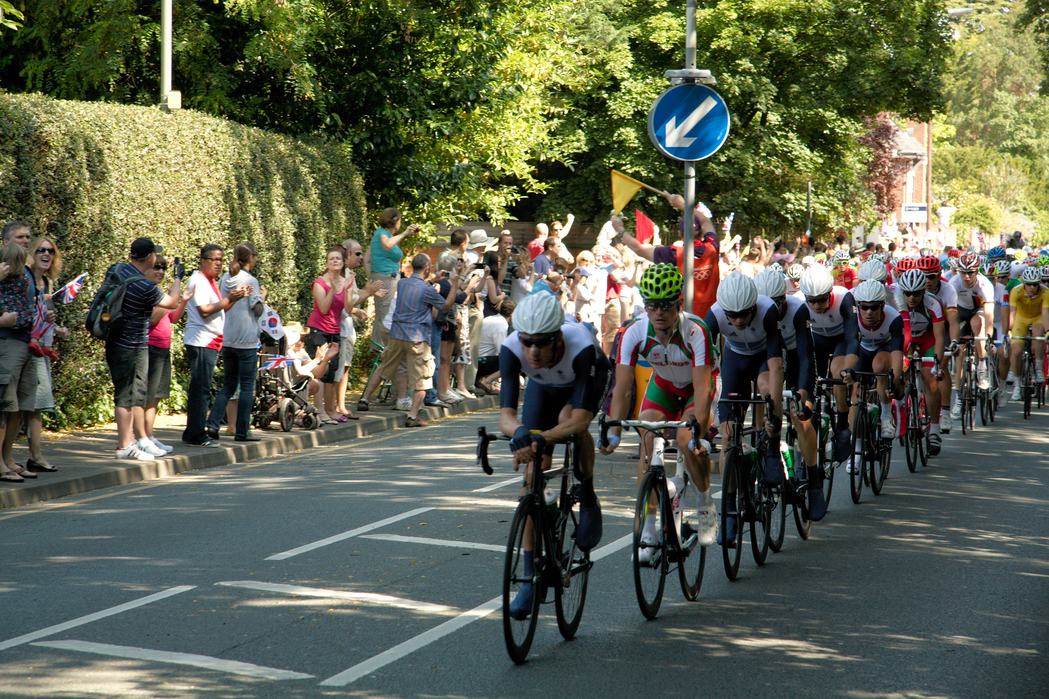 Olympic Mens Cycling in Weybridge